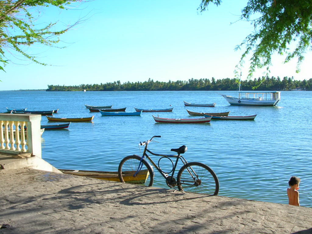 Dunes next to São Francisco River